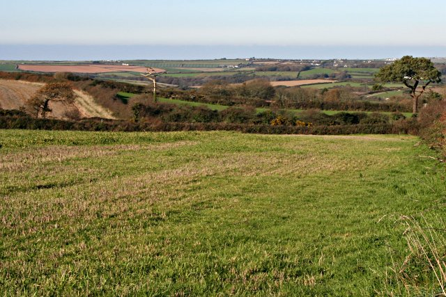 Farmland near Tresawsen Looking north across this grid square and beyond.